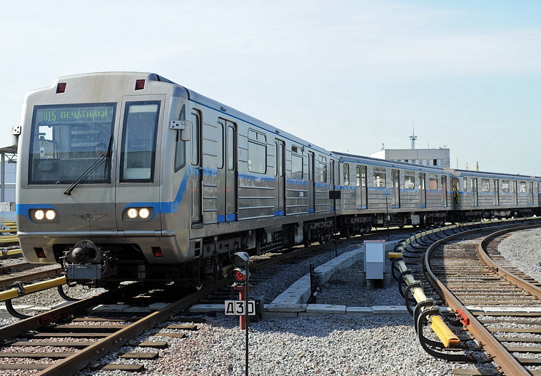 Metro electric train 81-717.6/714.6. Pechatniki depot of Moscow Metro